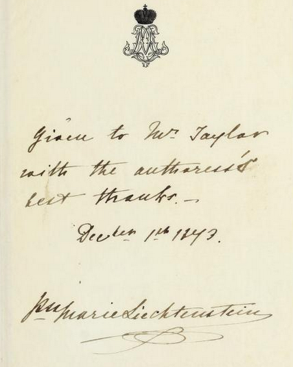 Signed copy of Holland House, Vol.1, London, 1874, by Liechtenstein, Princess Marie. Note by the author Mary Fox (Princess Marie of Liechtenstein), adopted daughter of Henry Fox, 4th Baron Holland (1802-1859), of Holland House, Kensington, London. "Given to Mr Taylor with the authoress's best thanks, Dec'ber 1st 1873". Apparently Mr Taylor of the British Museum, mentioned in the preface as follows: Unpretending as I intend this book to be, I cannot yet send it before the world without an acknowledgment to those who have helped me, not only by collecting information, but by harder and drier work. When I thought the book well-nigh completed, I found it was necessary that many historical facts and quotations should be verified or checked. Going abroad made this double task almost hopeless, and I do not know what I should have done without the kind and valuable aid of my friends, Miss Probyn and Sir James Lacaita, and Mr. Taylor, of the British Museum.